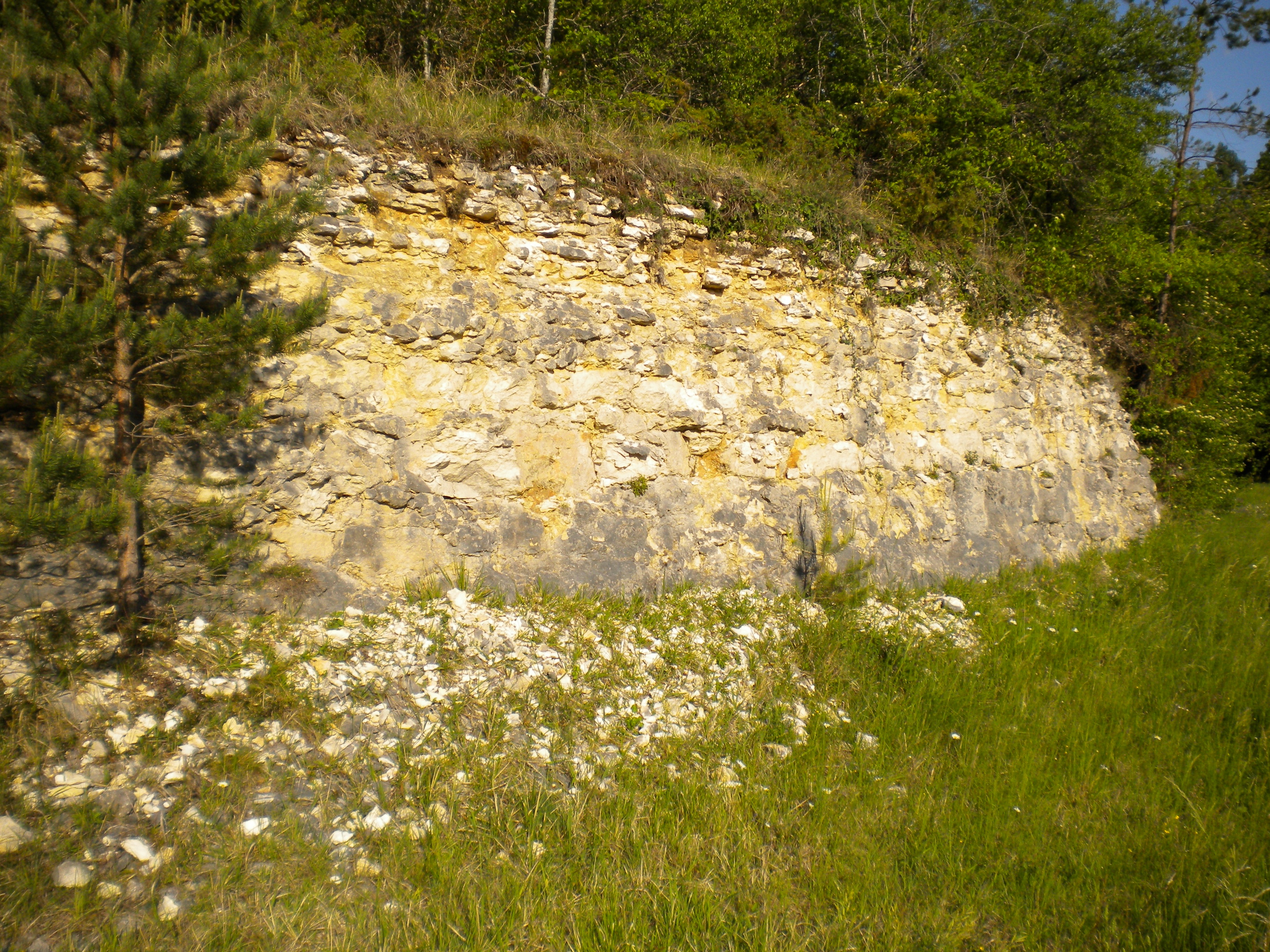 Outcrop of flat-lying Ligerian strata (Lower Turonian) along the Nizonne River. Near Les Bernardières, commune of Champeaux-et-la-Chapelle-Pommier, Dordogne, France.